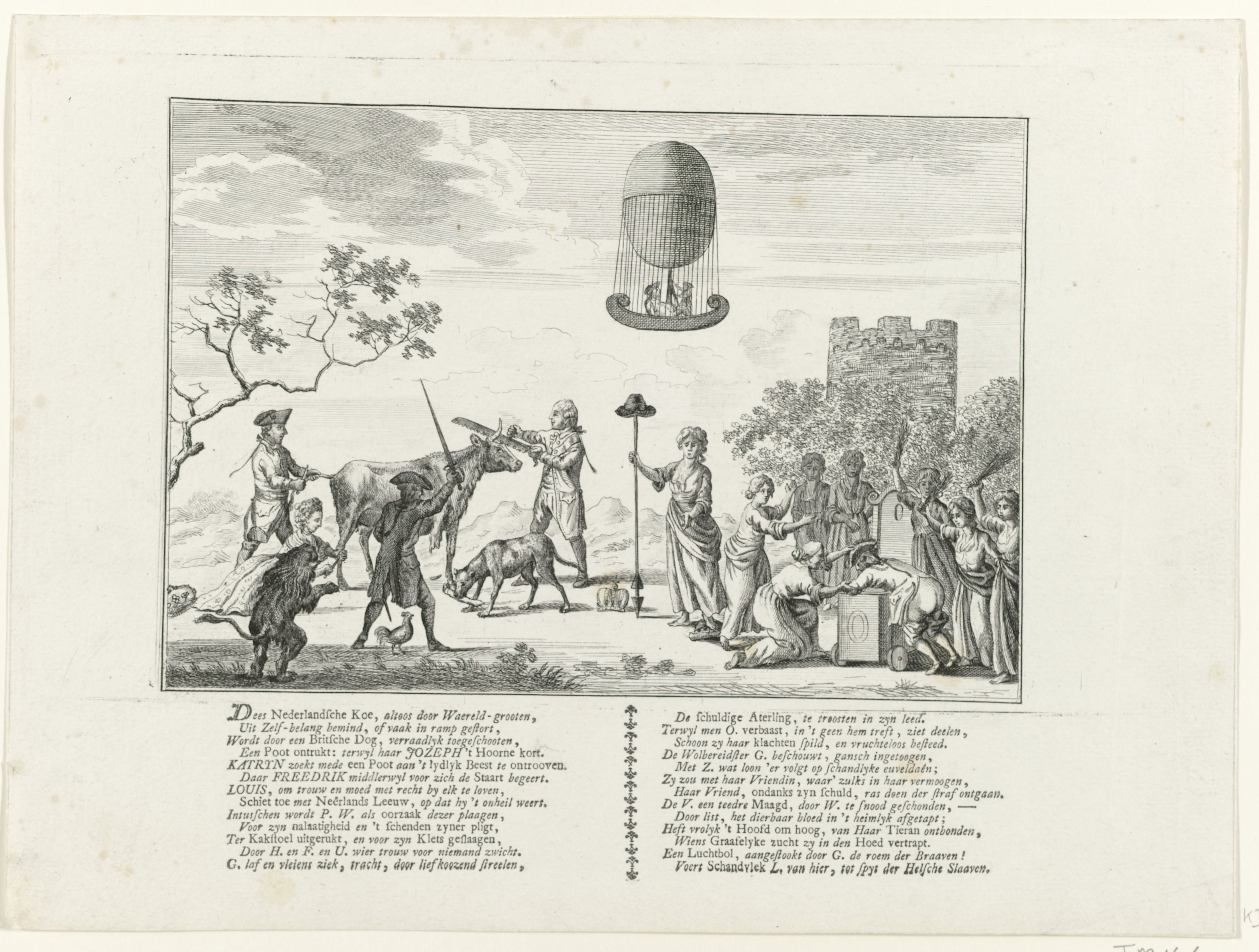 The cartoon shows an allegory about the dire state of the Dutch Republic in 1784. Several European powers take pieces of the Dutch cow, while the Duke of Brunswick flies in a hot-air balloon, and Prince William V is spanked on his bare bottom.